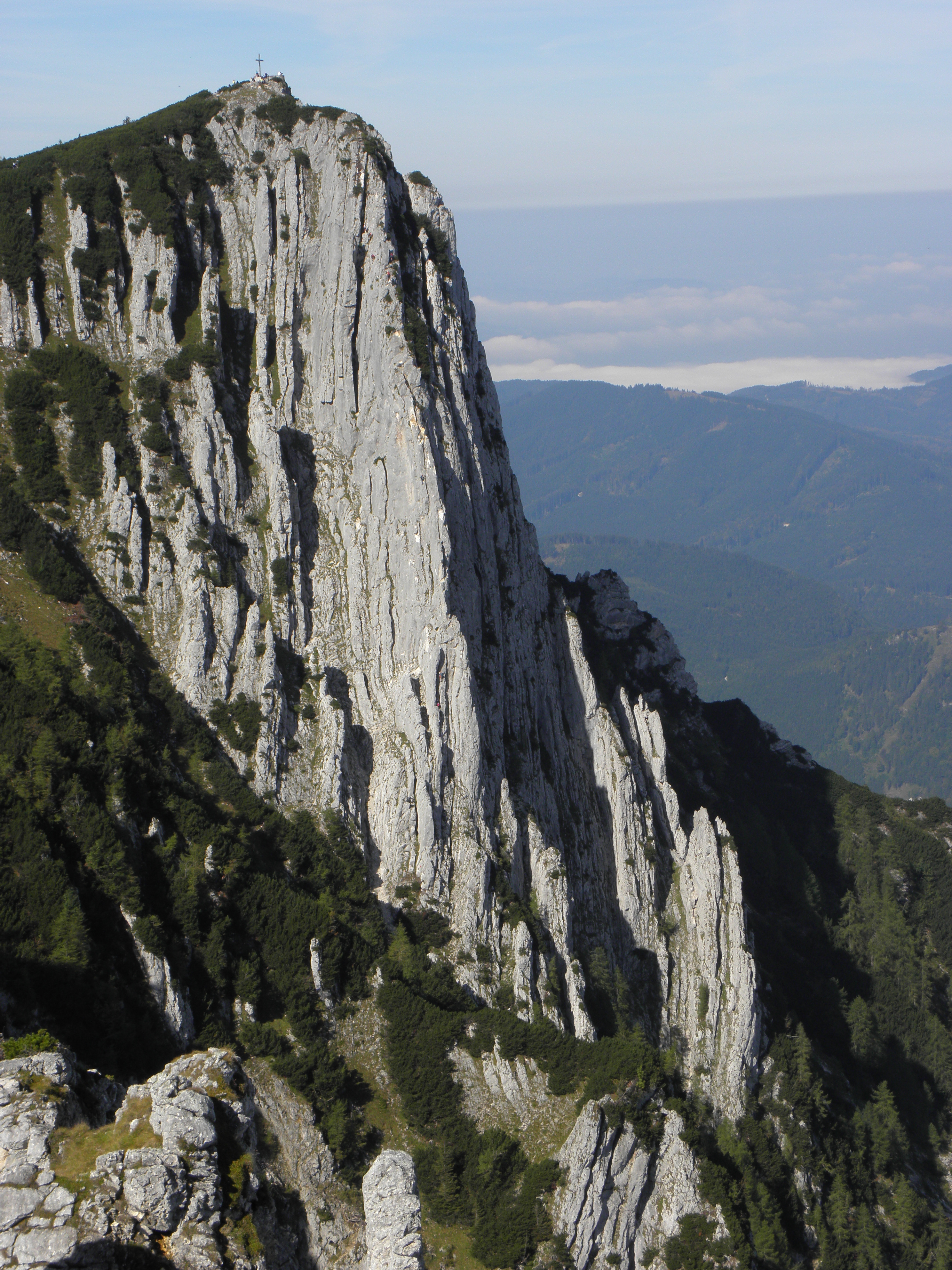 The mountain "Alberfeldkogel".